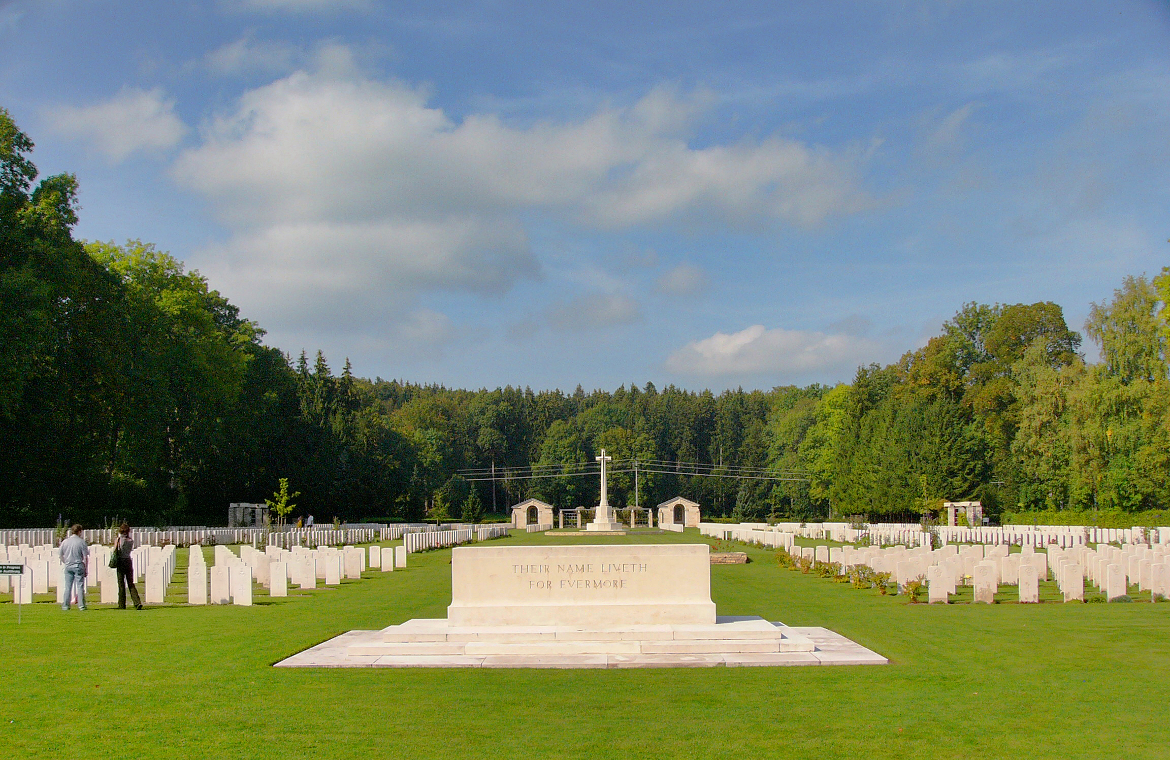 The Durnbach War Cemetery is an international cemetery in Dürnbach, district Gmund in Bavaria, Germany